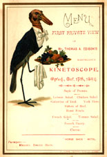 Low-resolution image of poster for exhibition of movies via Thomas Edison's Kinetoscope in London